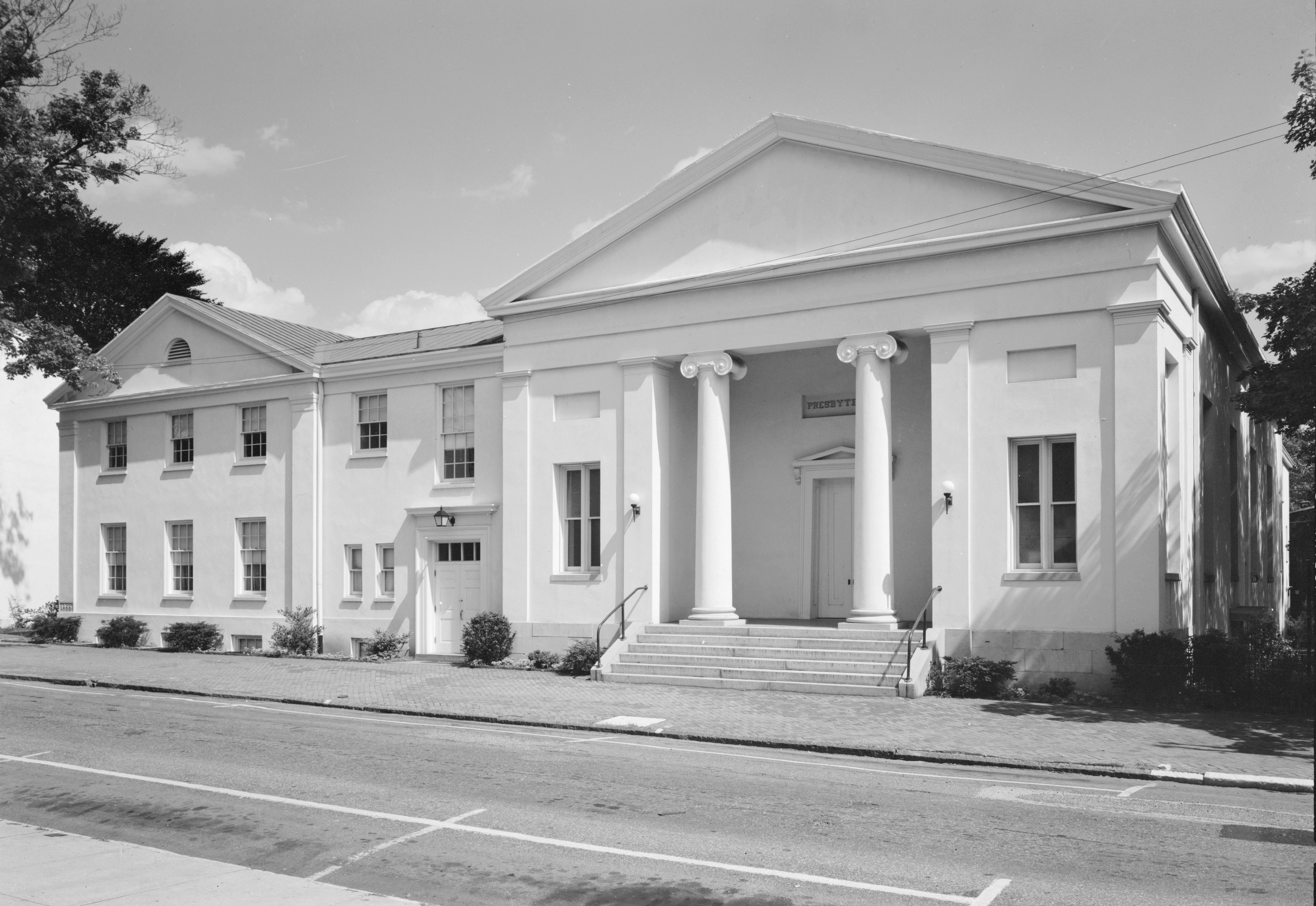 First Presbyterian Church, West Chester, Pennsylvania. HABS photo 1958 by Ned Goode